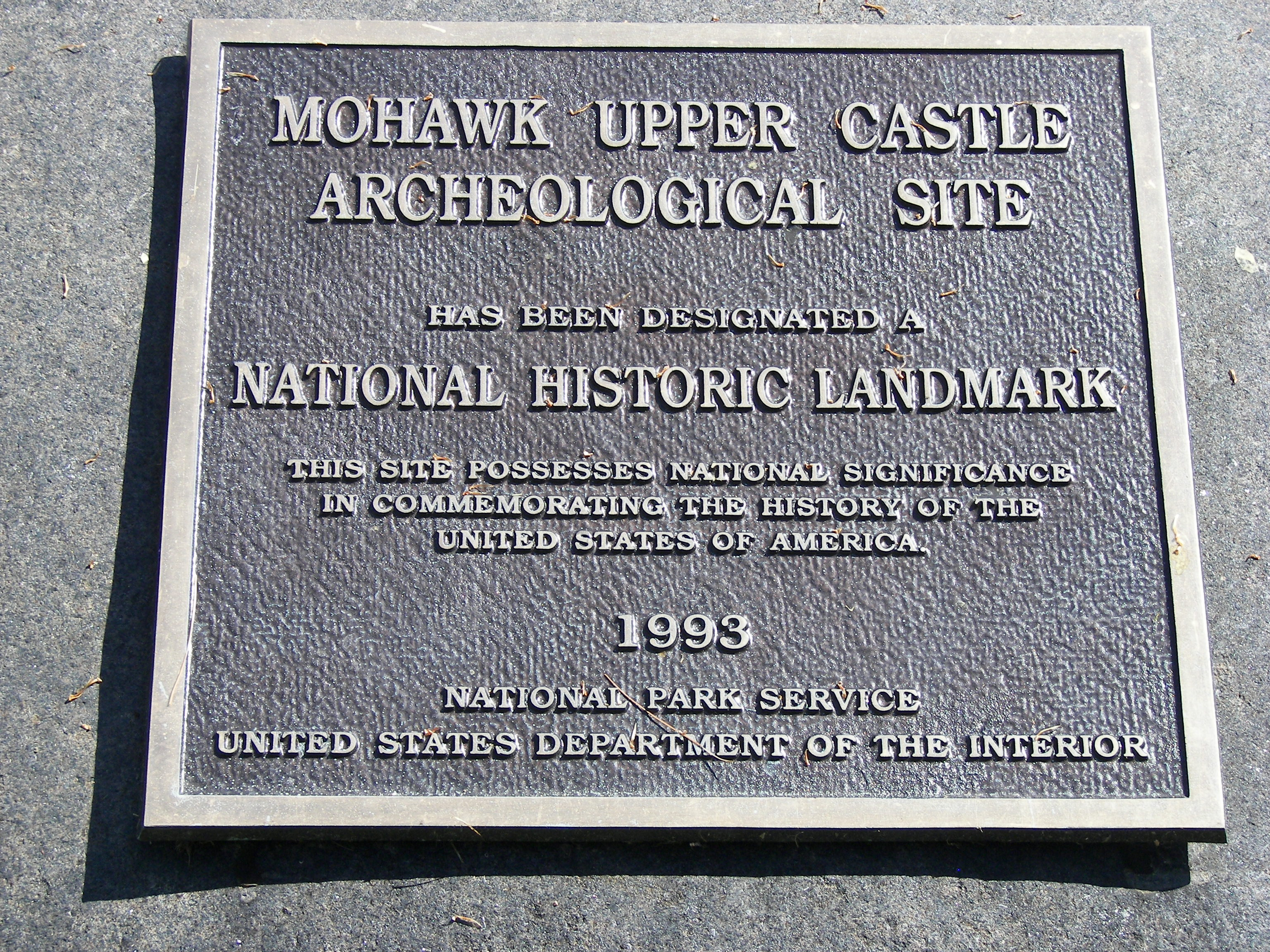 Plaque marking Indian Castle Church in Danube, Herkimer County, New York.